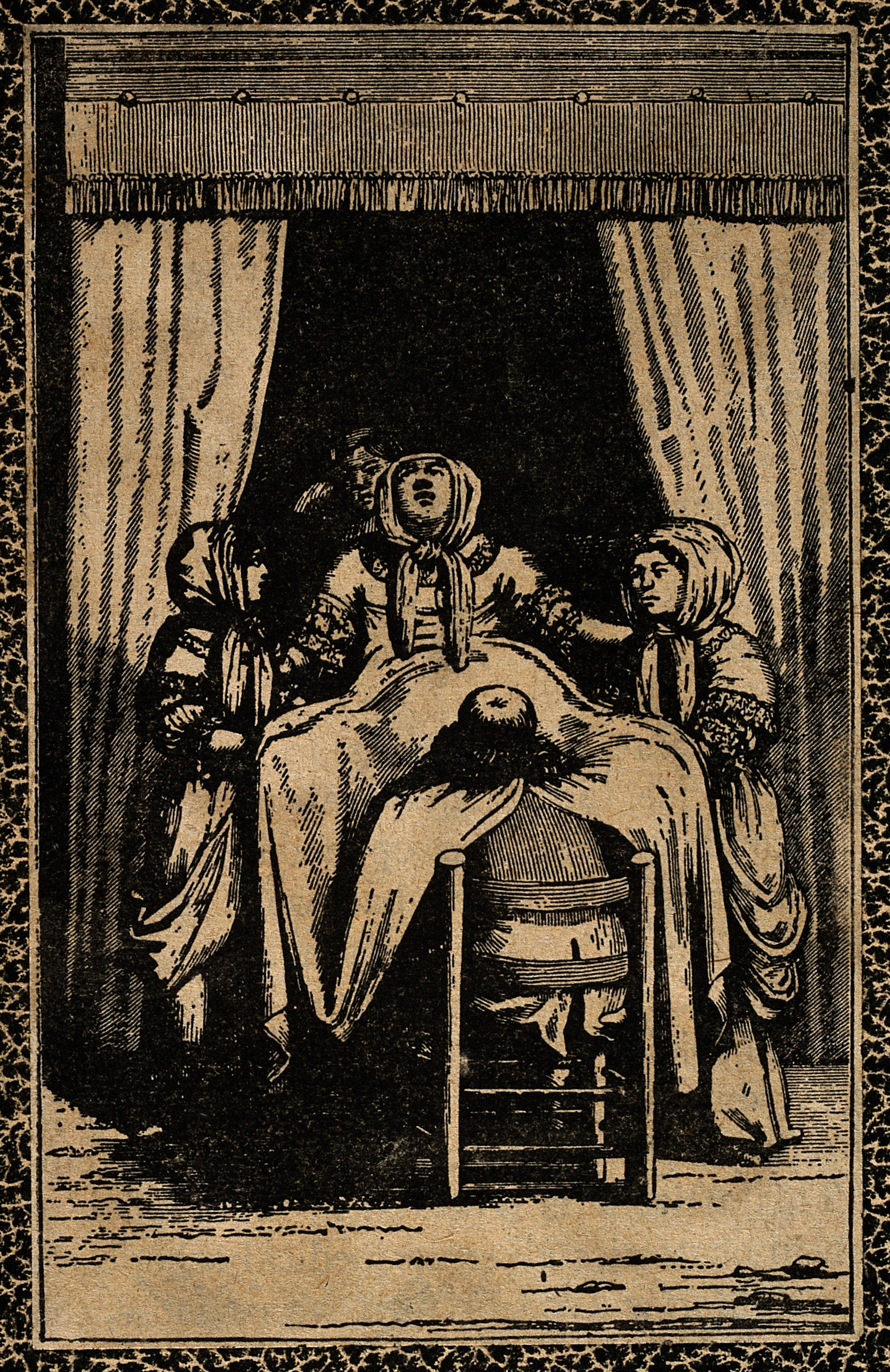 A woman giving birth aided by a surgeon who fumbles beneath a sheet to save the lady from embarassment. Wood engraving after a woodcut, 1711. Iconographic Collections Keywords: scharf; FORCEPS; Surgical Instruments; Obstetrics; CHILDBIRTH; Parturition